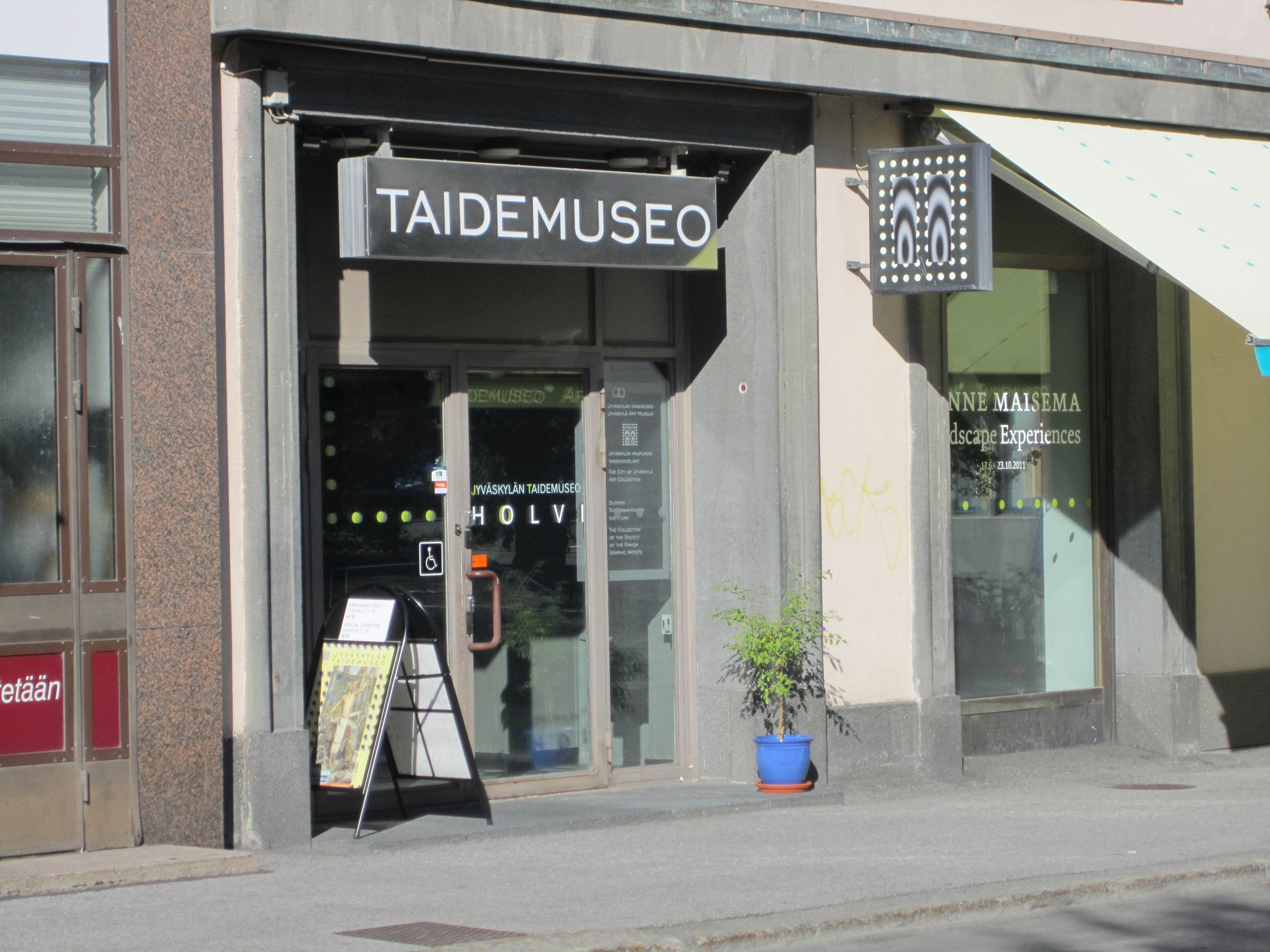 Jyväskylä Art Museum, Finland.